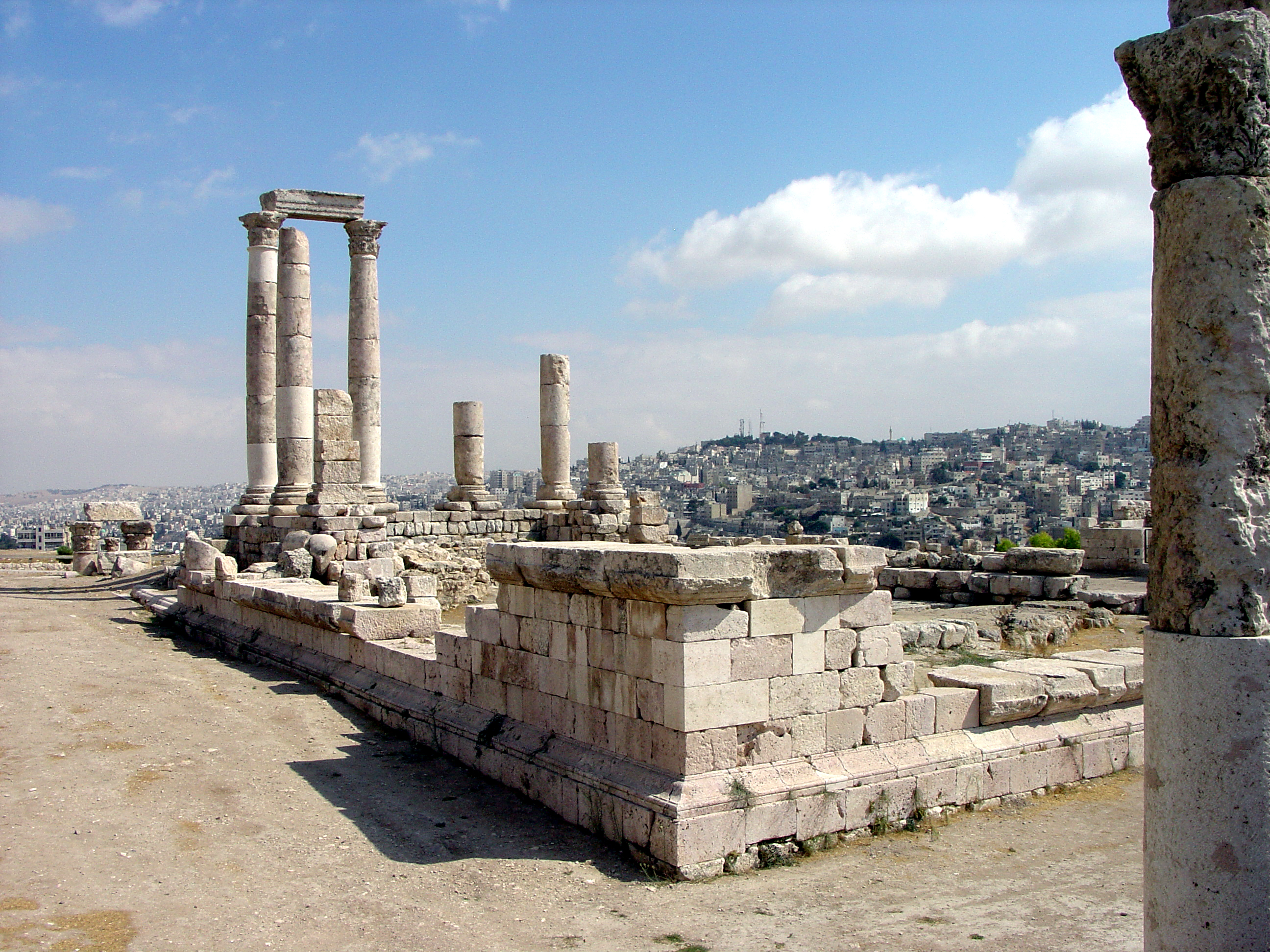 Temple of Hercules, back view. The Citadel, Amman, Jordan.